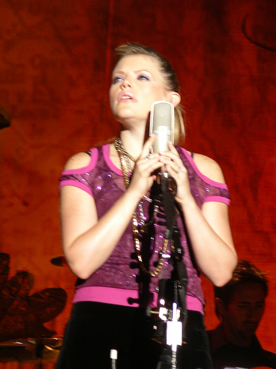 Natalie Maines of the Dixie Chicks performing in Glasgow in 2003.